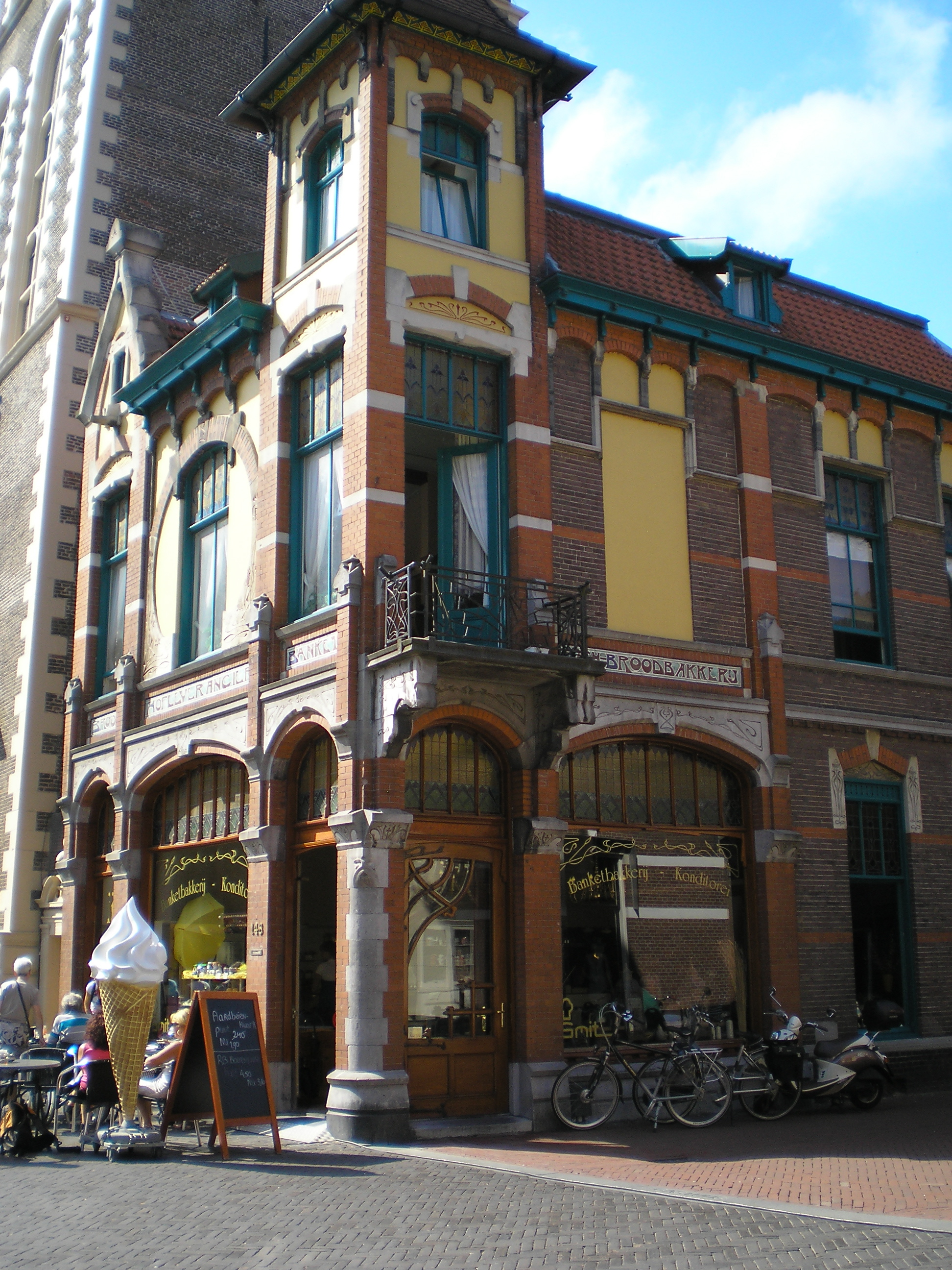 Gasthuisstraat in Kampen in the Netherlands